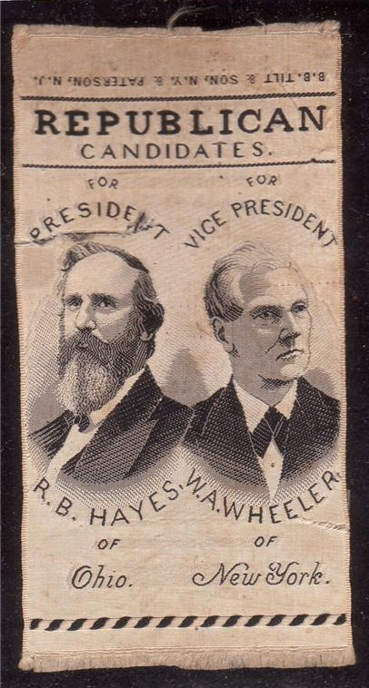 Political campaign ribbon for 1876 presidential campaign of Rutherford B. Hayes and W. A. Wheeler; black and white ribbon (a similar ribbon, illustrated in the picture this was cropped from, was printed in black ink and red ink); ribbon features portraits of both Hayes and Wheeler ("jugate"); Top lines read: "Republican Candidates. / For President For Vice President [...]"